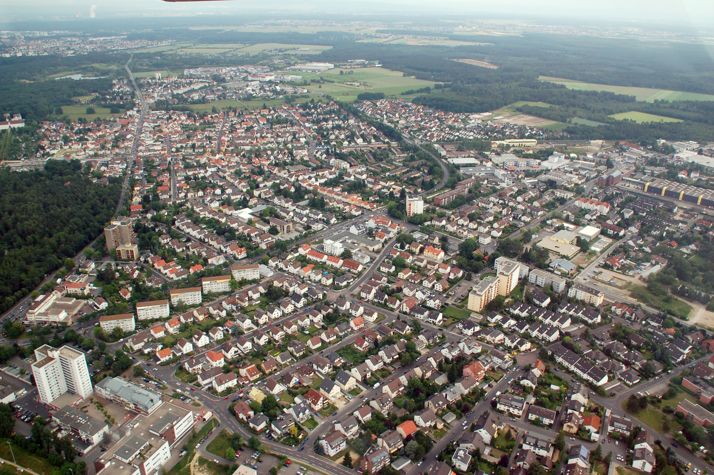 Aerial photograph of Heusenstamm, Hessen, Germany